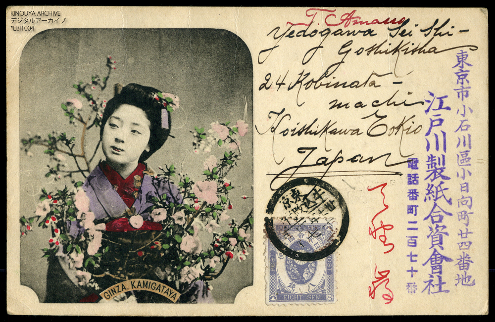 An example of Japanese postcard published by Kamigataya, Tokyo 1904.